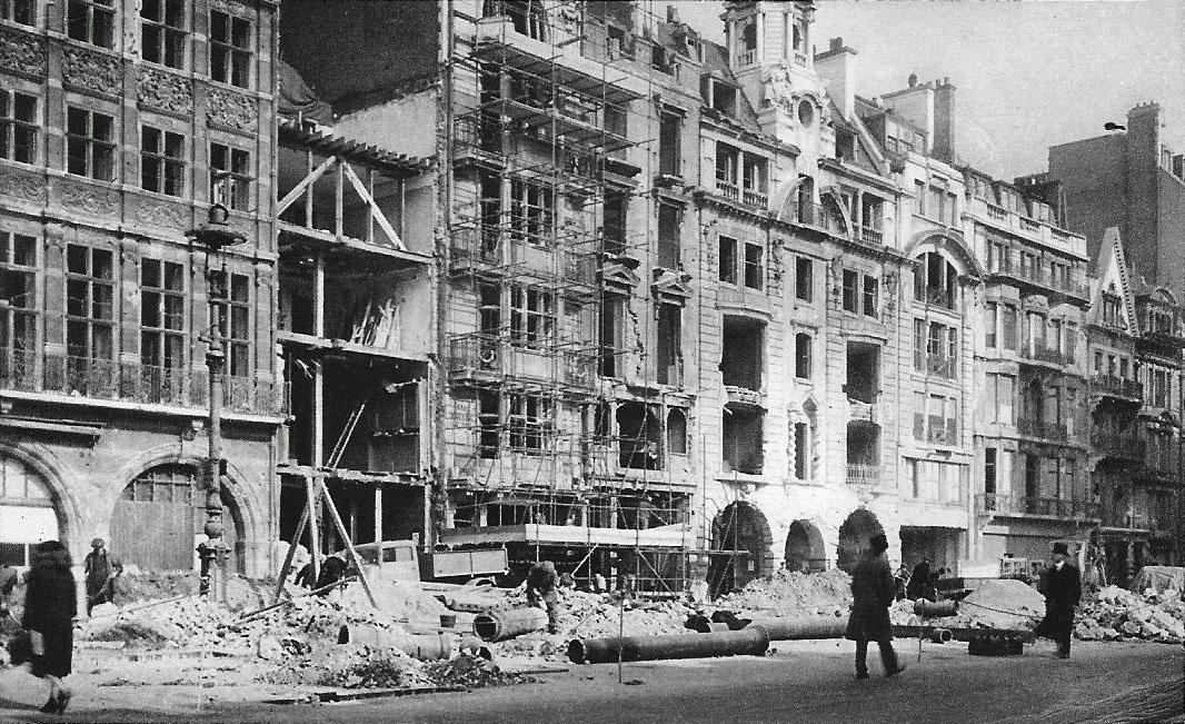 This is the west end of Pall Mall in February 1944 showing bomb damage inflicted by the German 'Operation Steinbock' which Londoners called 'The Little Blitz' or 'The Baby Blitz'. The night time bombing raids began in January and ended in April and were in retaliation for the saturation bombing of Germany. Damage was caused to The Alliance Assurance Company's building on the left which dates from 1882 and was designed by the architect of New Scotland Yard, Richard Norman Shaw. The building just along from the Alliance Assurance building is No. 61 Pall Mall which since 1897 had been the premises of the Hardy's fishing tackle shop. The photographer is standing with his back to St. James's Palace.